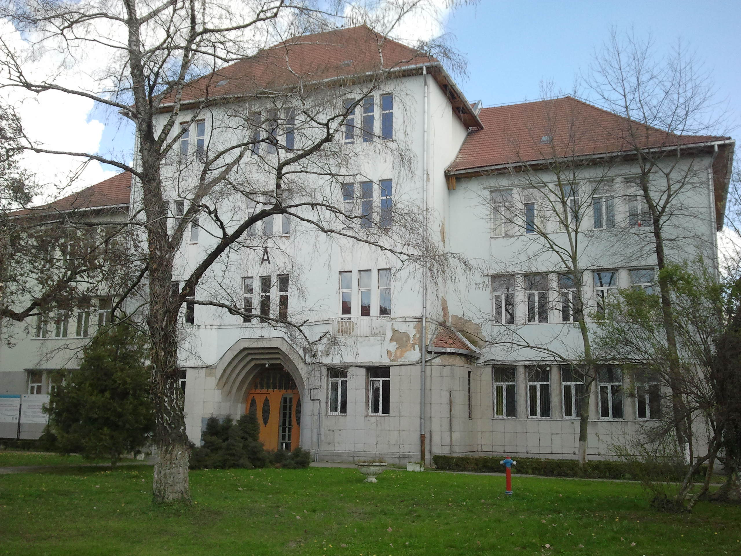 University of Oradea - Buliding A